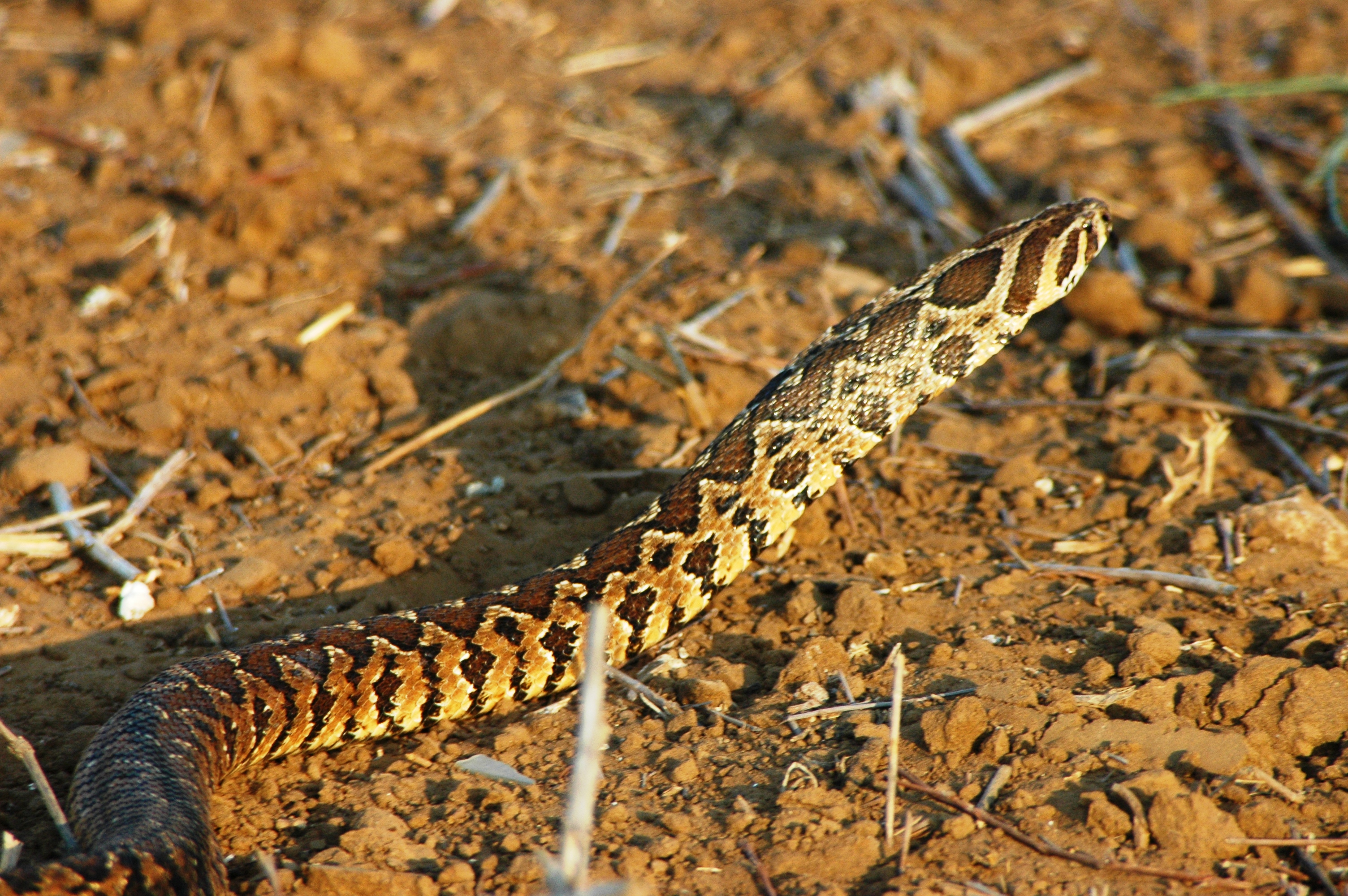 Vipera palaestinae, Israel